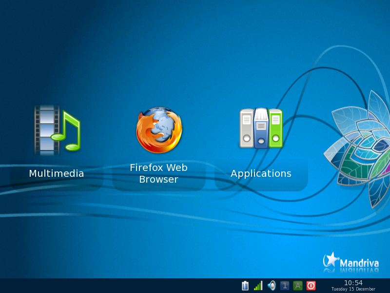 foto tomada por mi, ya que es de mi escritorio